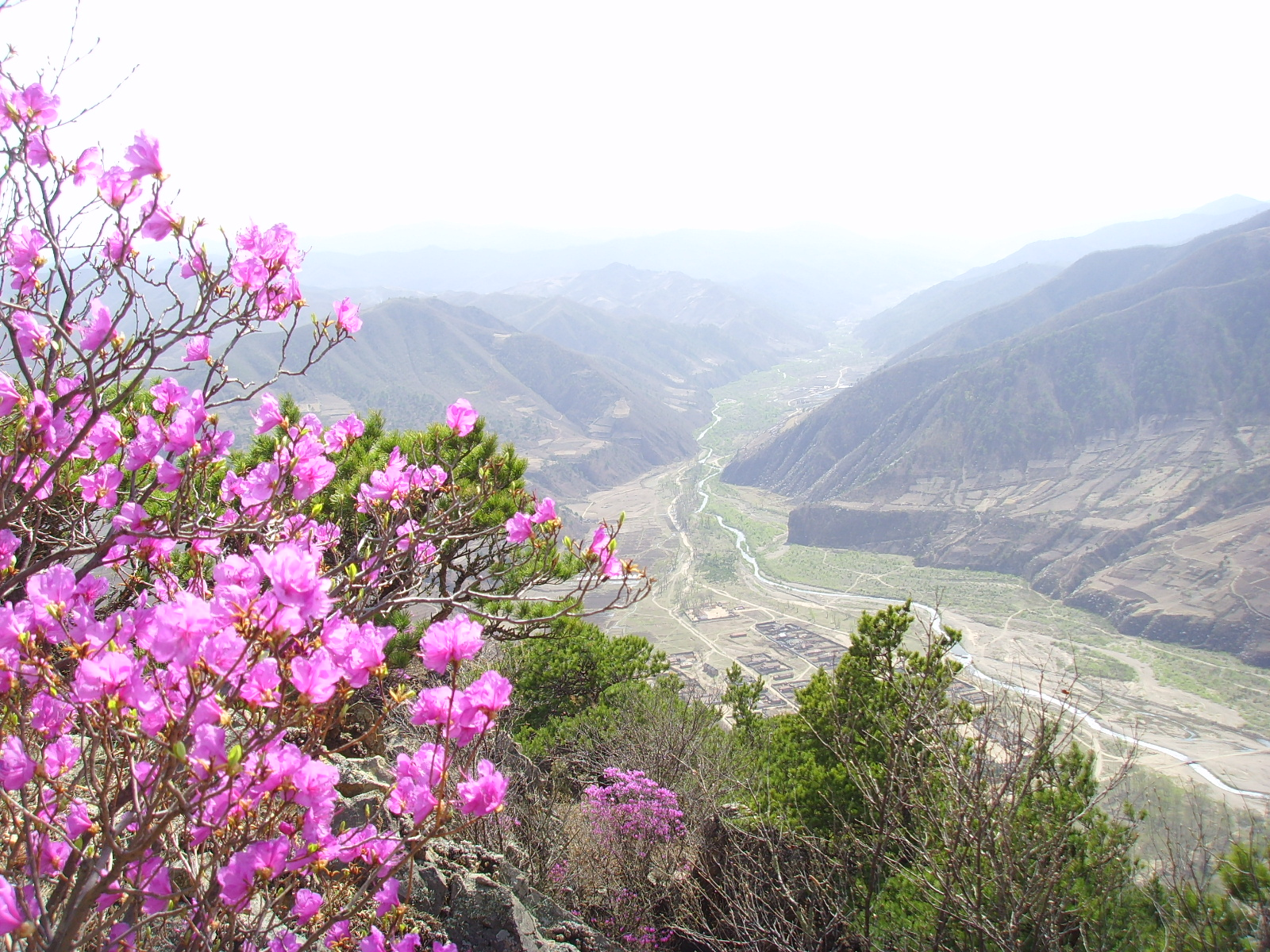 天佛指山 金达莱 (구룡바위정상에서 본 조선) The valley above Songhak-ri